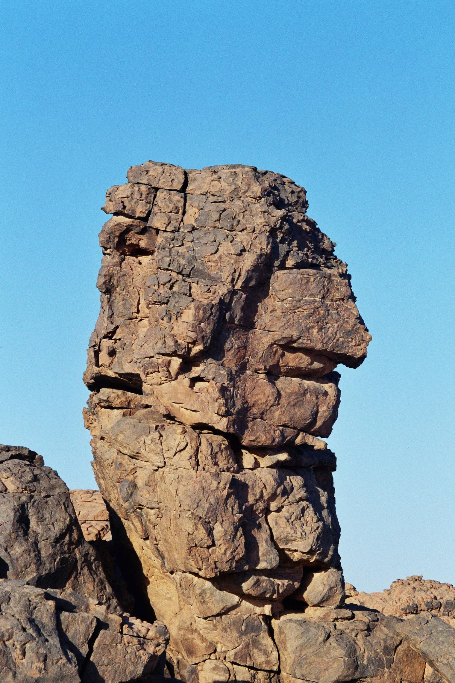 Head rock - Rock with a human form in the desert of Akakus in Libya